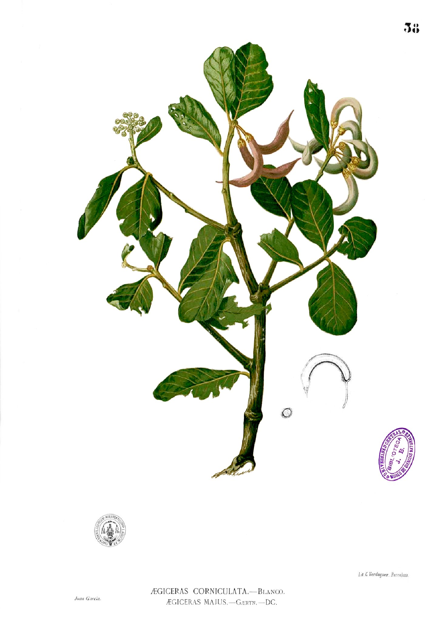 Plate from book